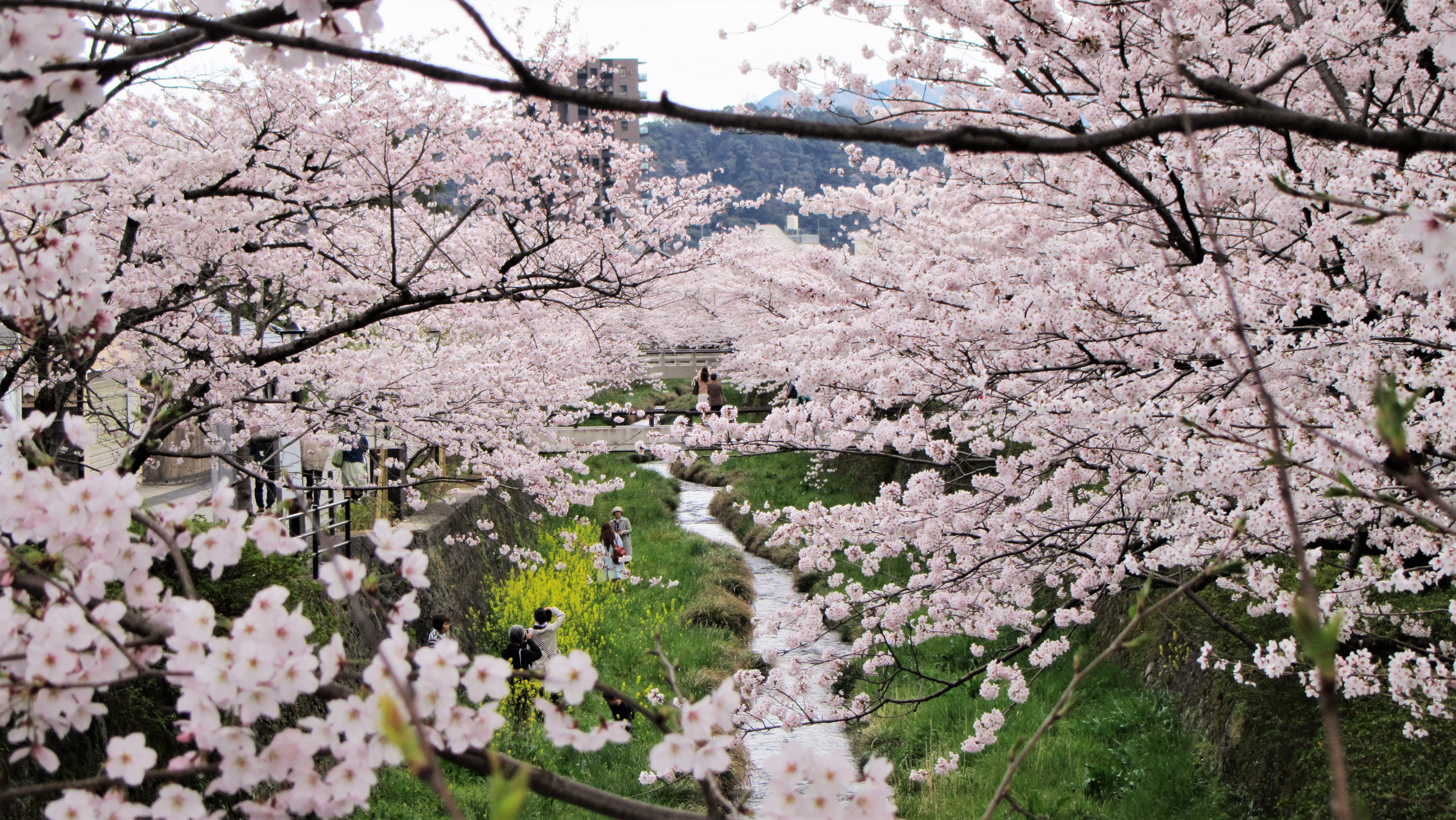 View of Ichinosaka river in central Yamaguchi, during the cherry blossom season.